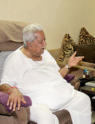 Narendra Modi visits Keshubhai Patel and seeks his blessings.